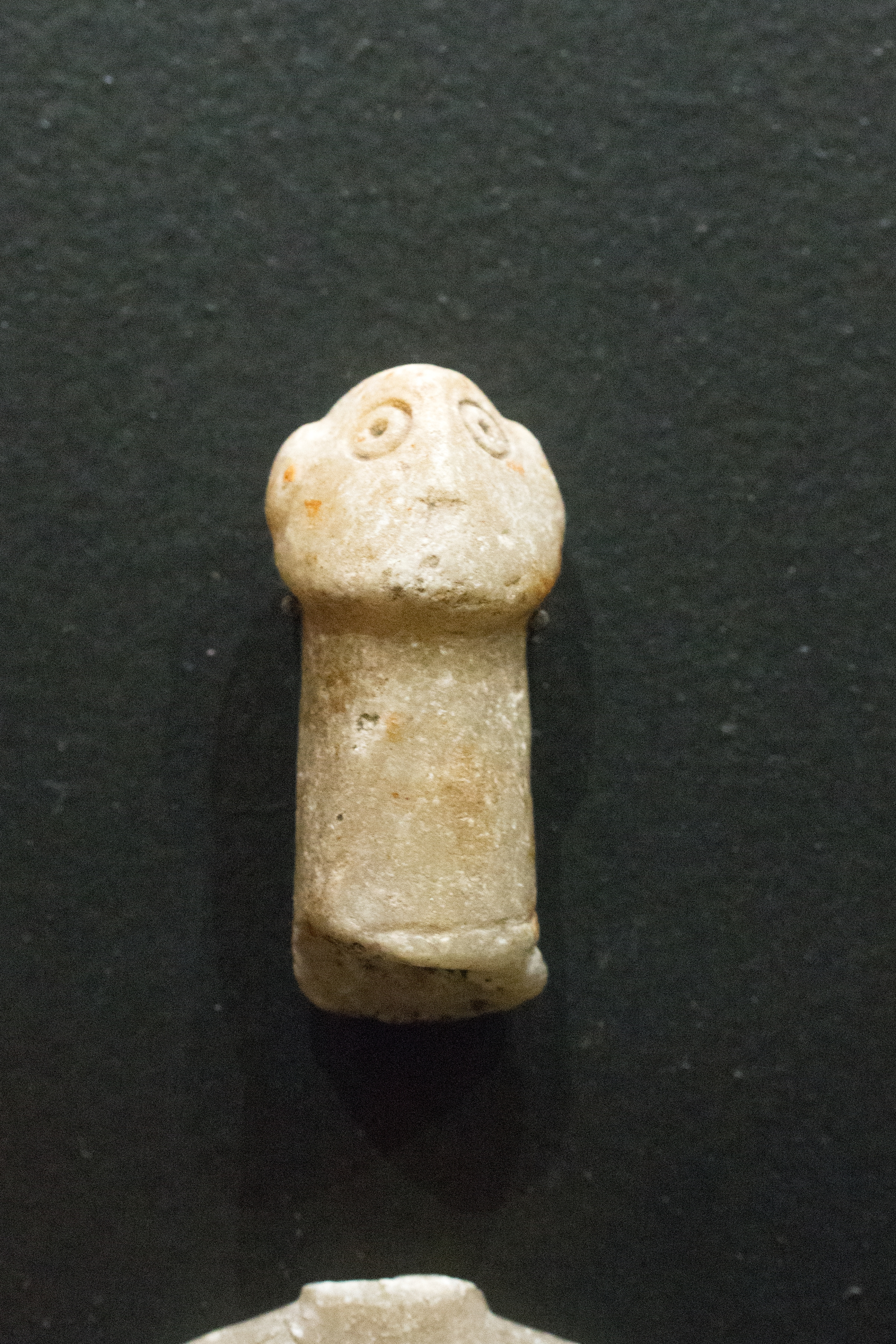 Fragments of Anatolian idol. Stylized and woman´s head. Alabaster. Asia Minor, Kanesh, 21st - 19th century BC. NG Prague, Kinský Palace, NG 844.